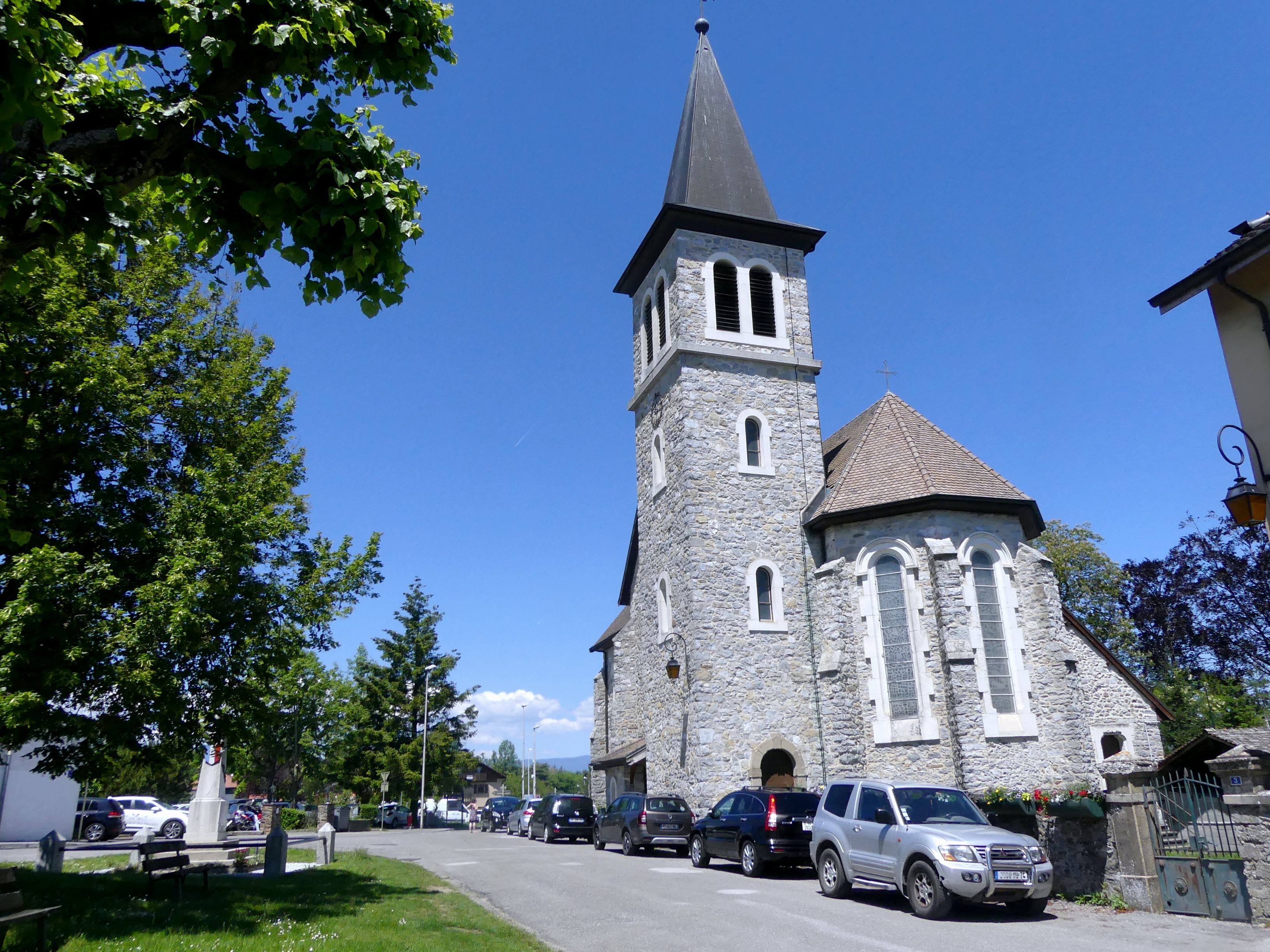 Sight of Saint-Symphorien church of Excenevex, in Haute-Savoie, France.